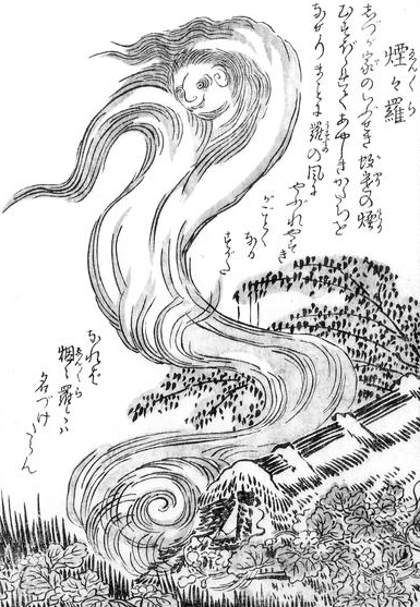 Enenra (煙々羅, a monster made of smoke) from the Konjaku Hyakki Shūi (今昔百鬼拾遺)